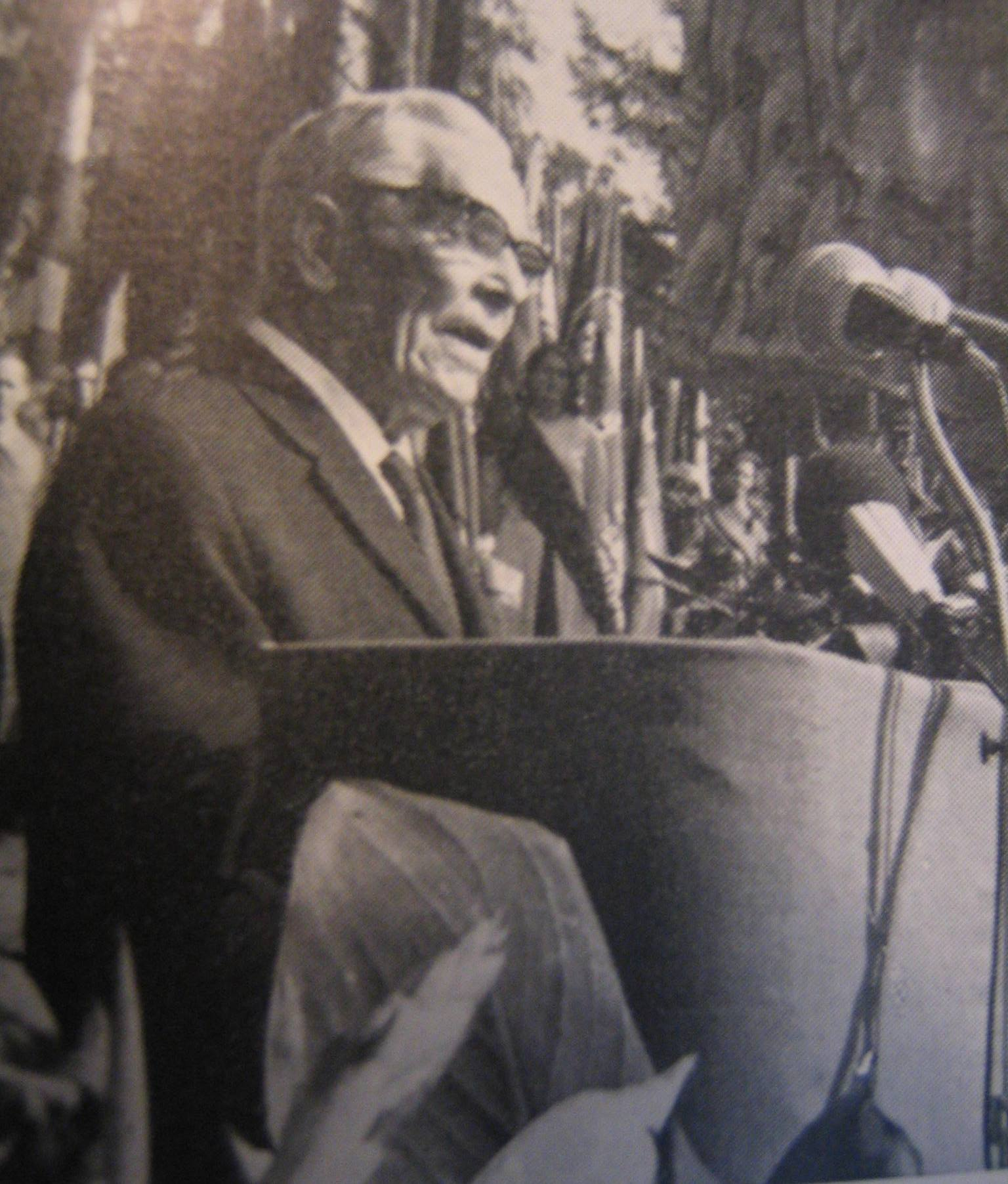 Finnish red leader Kustaa Kulo